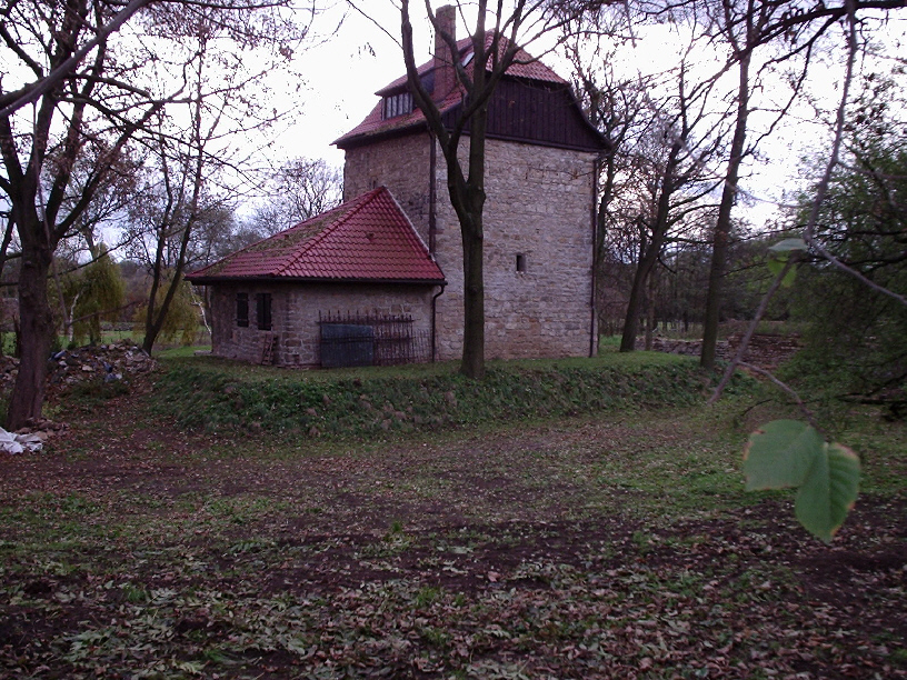 The castle in Brüheim village.